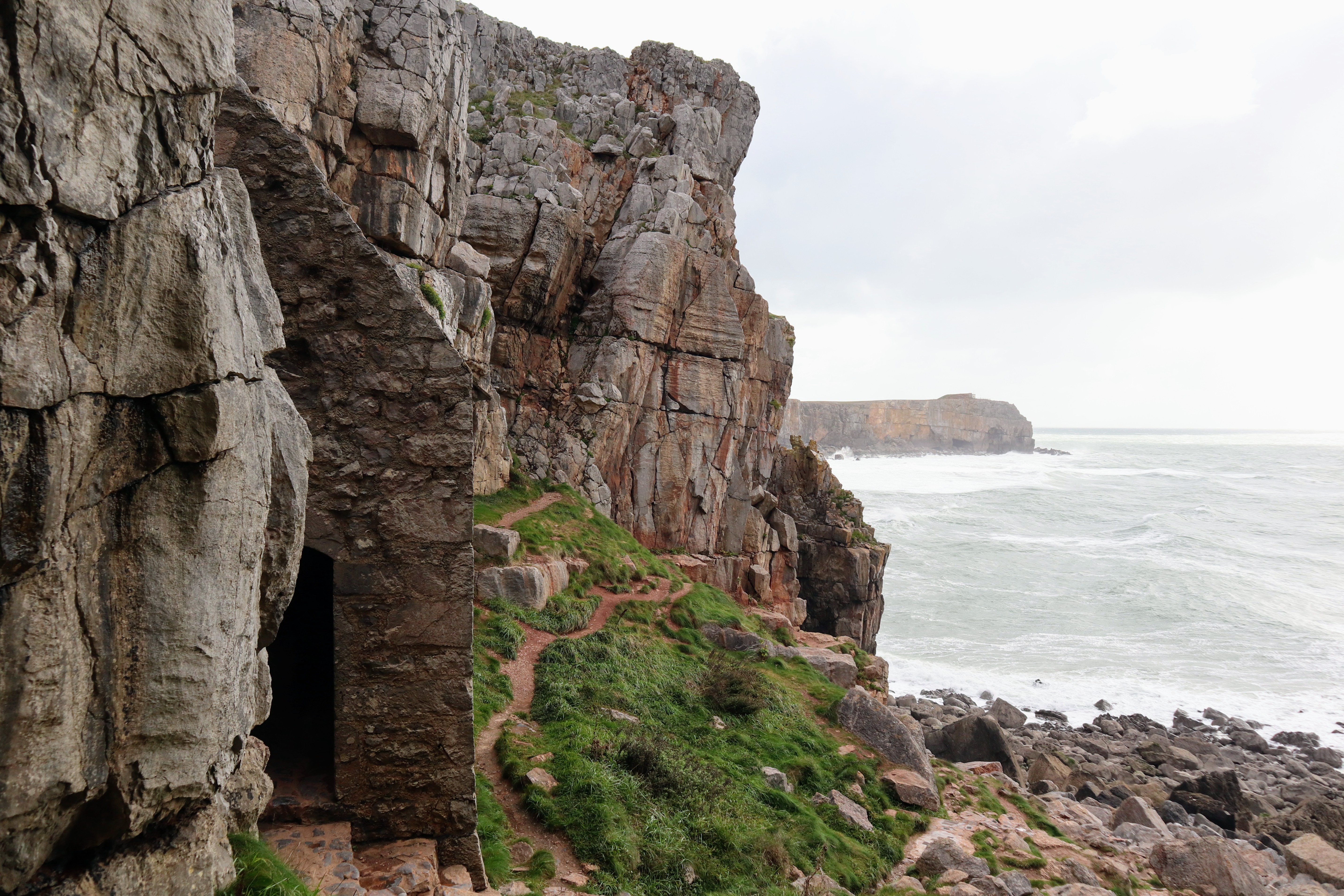 St. Govan's Chapel Wikidata has entry Q15979526 with data related to this item.